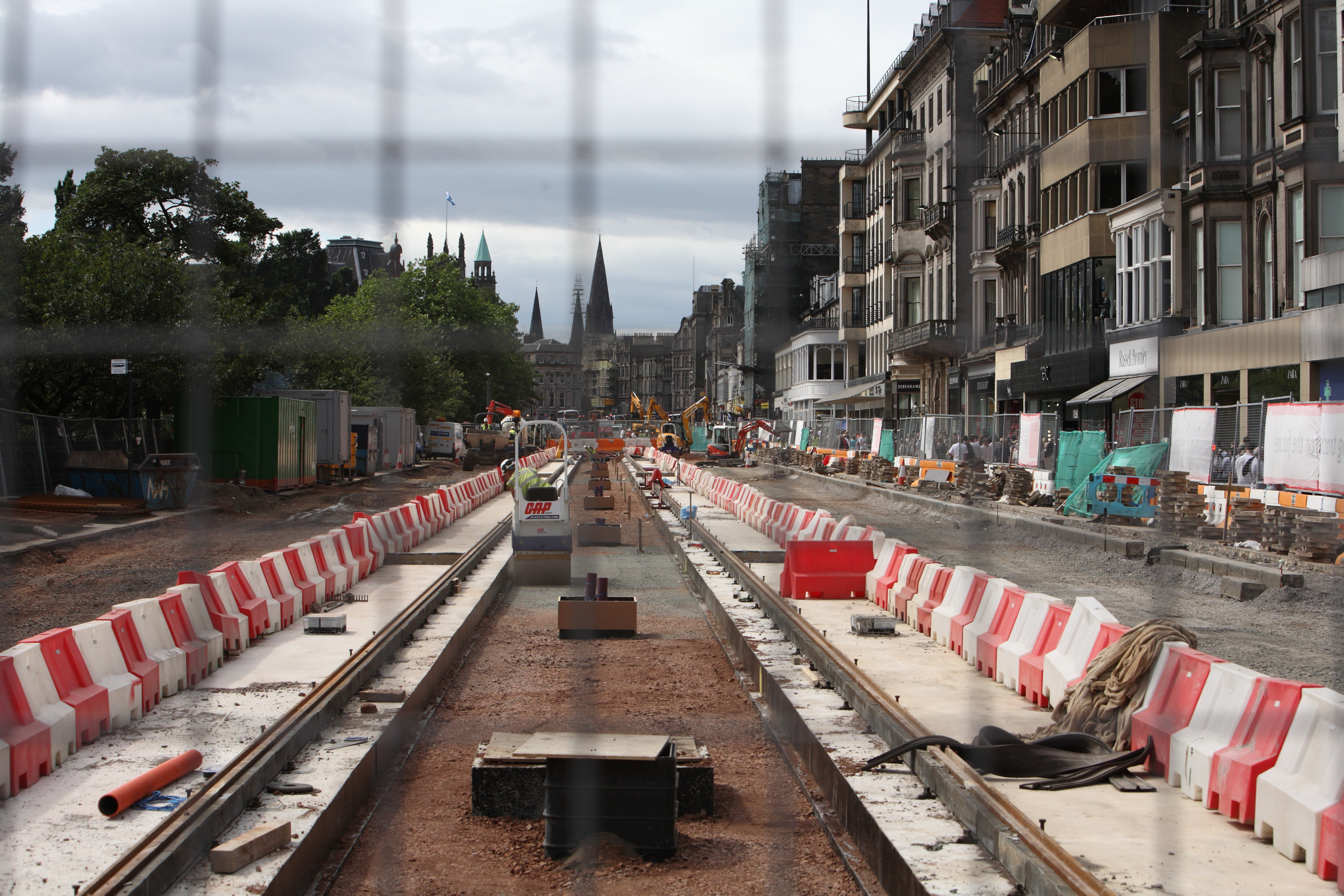 Edinburgh Tram Works on Princess Street